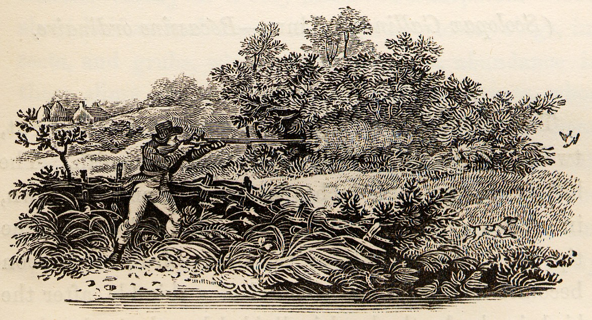 Woodcut by Thomas Bewick in History of British Birds 1797-1804